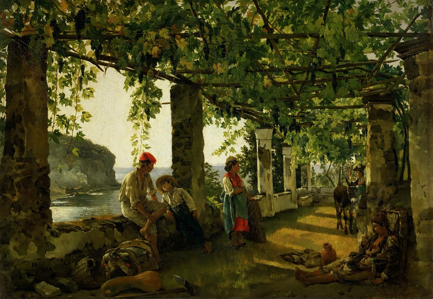 Terrace on the Seashore. 1828. Oil on canvas. The Tretyakov Gallery, Moscow, Russia.